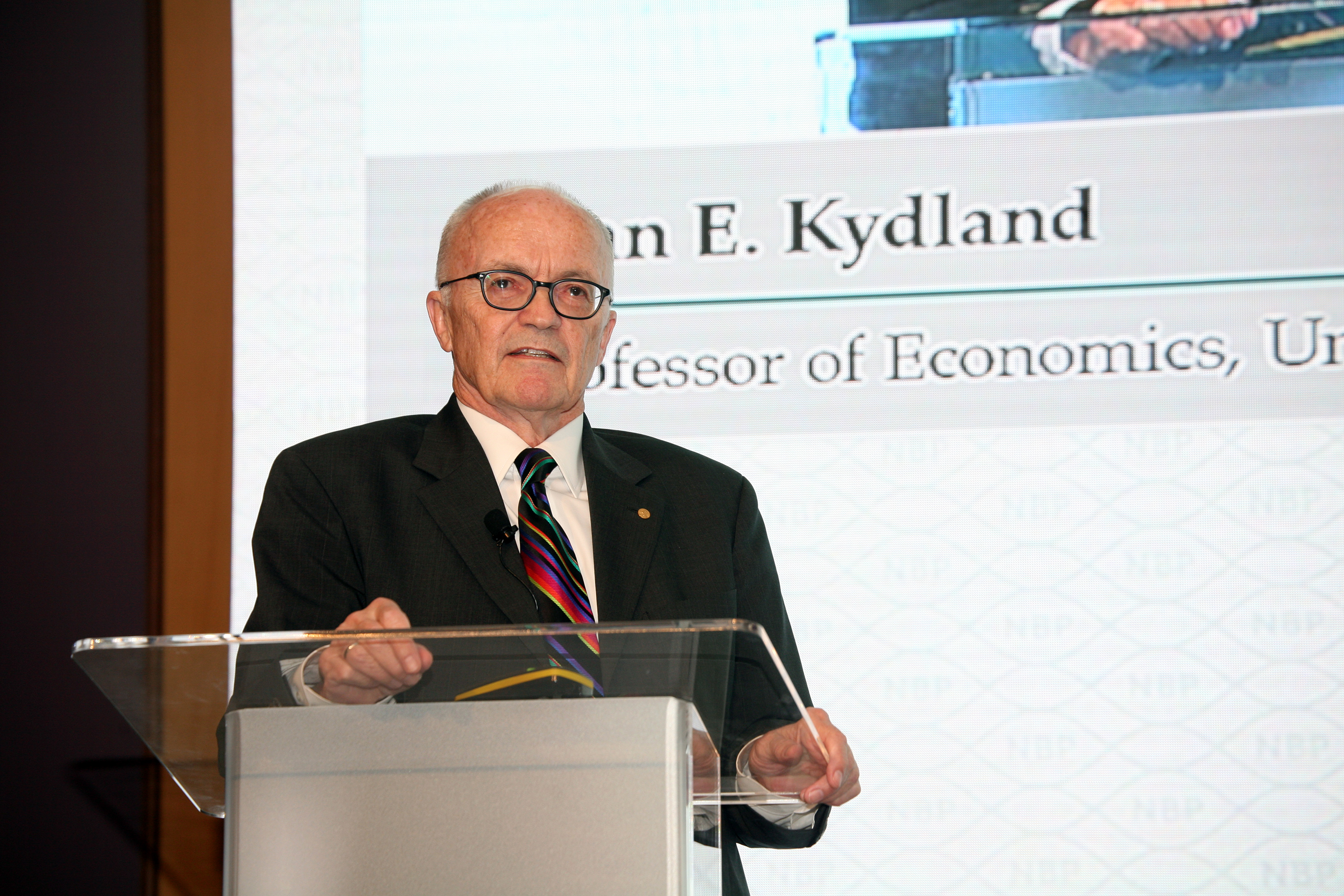 Wykład prof. Finna E. Kydlanda oraz prof. Edwarda C. Prescotta, The Poor Economic Performances in the EU and the US: Problems are Political, not Economic 24 czerwca 2015, Warszawa.